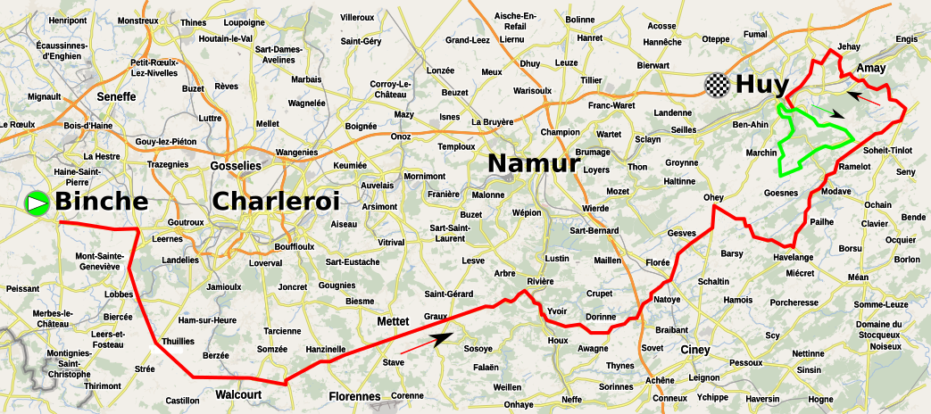 Overview map of the Flèche wallonne 2017.